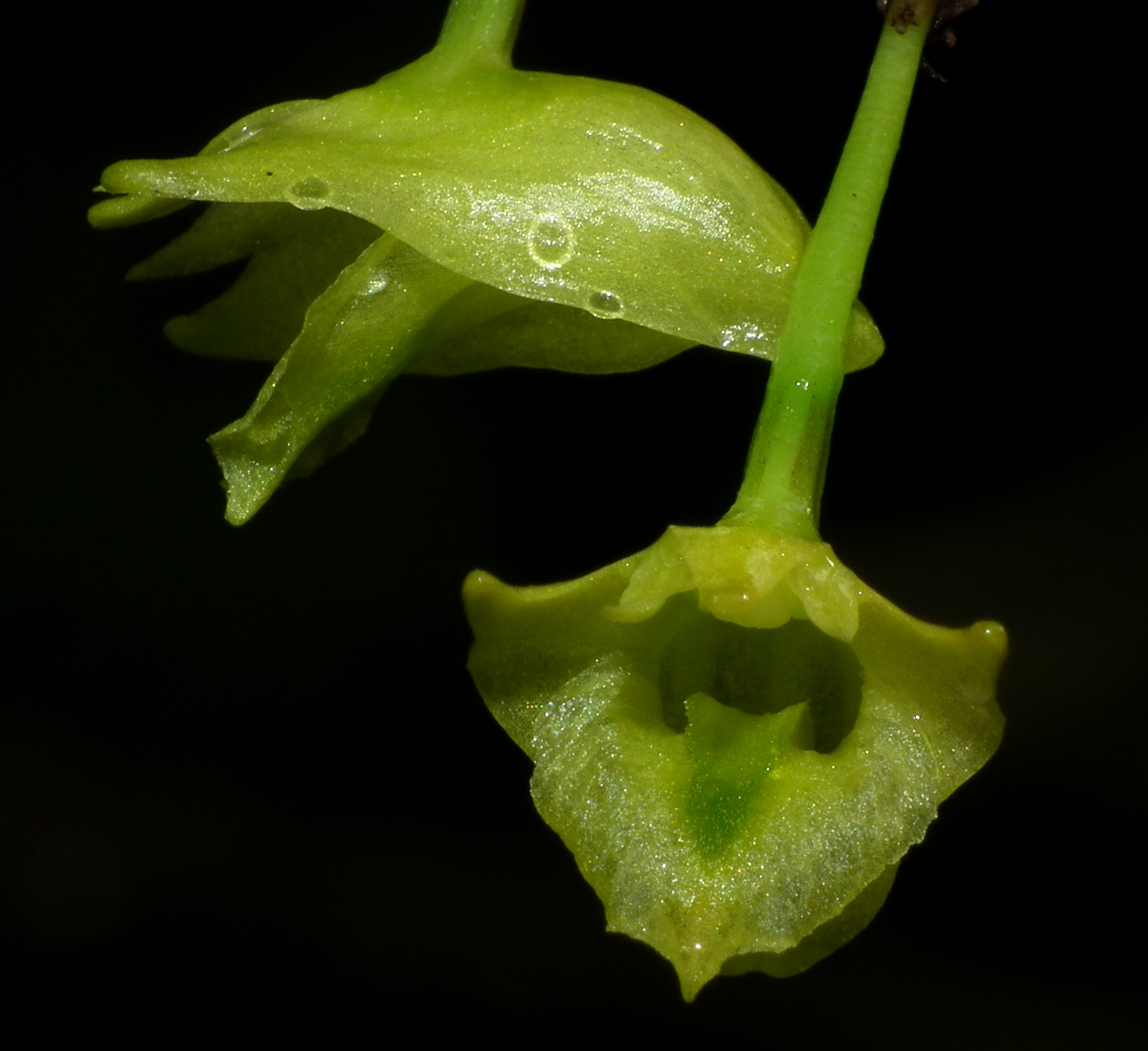 Dendrobium philippinense, by Ronny Boos